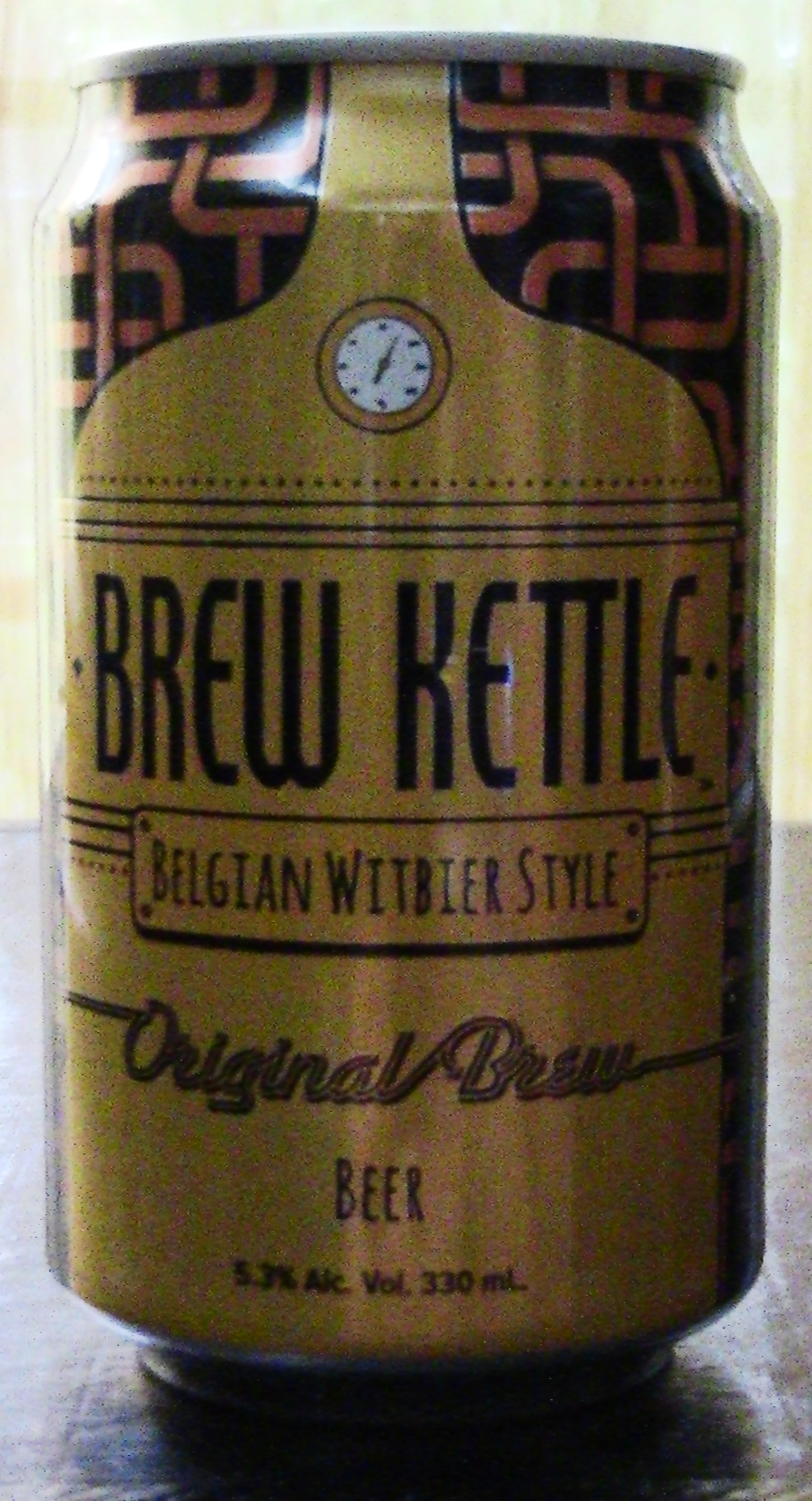 Can of Asia Brewery's Brew Kettle Beer.